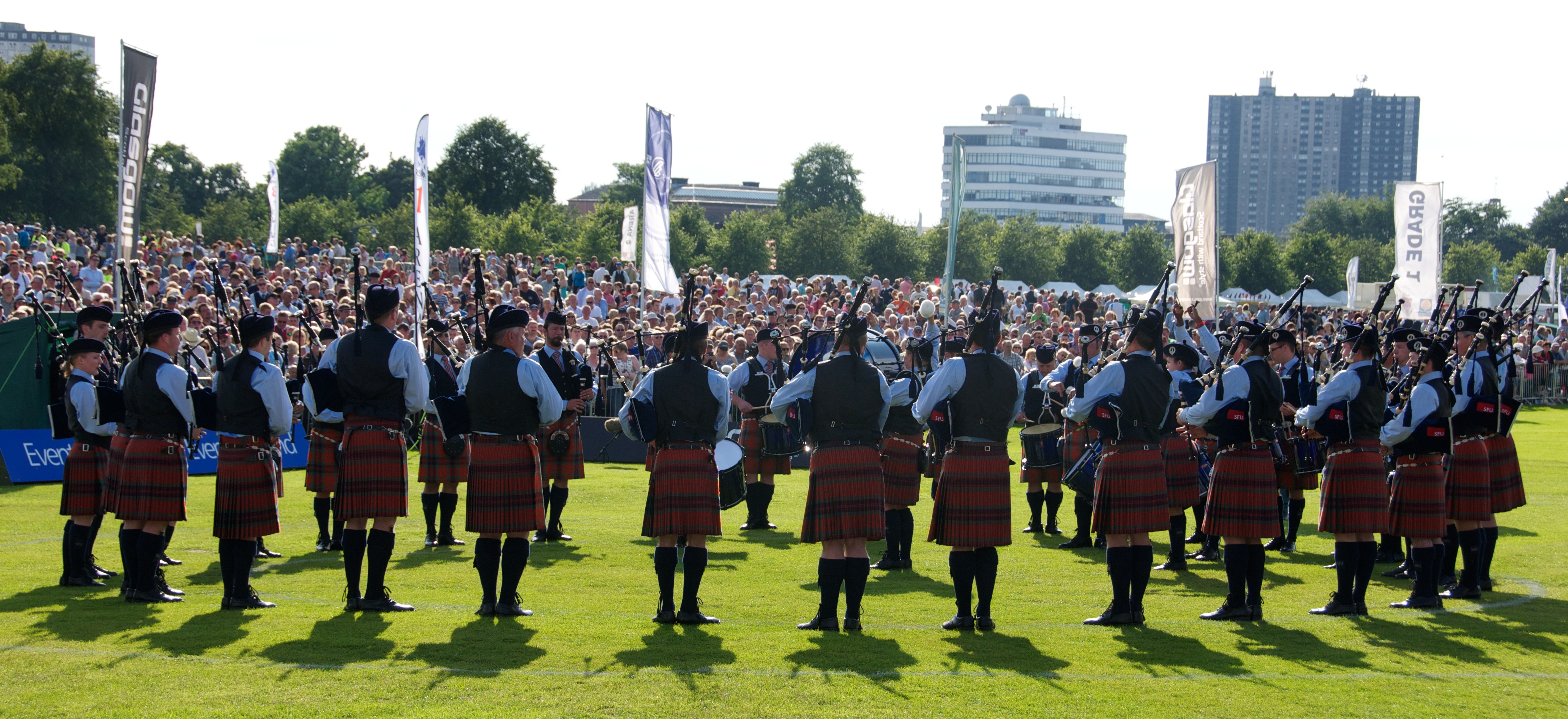 SFU Gr.1 Pipe Band performs at the Worlds 2012